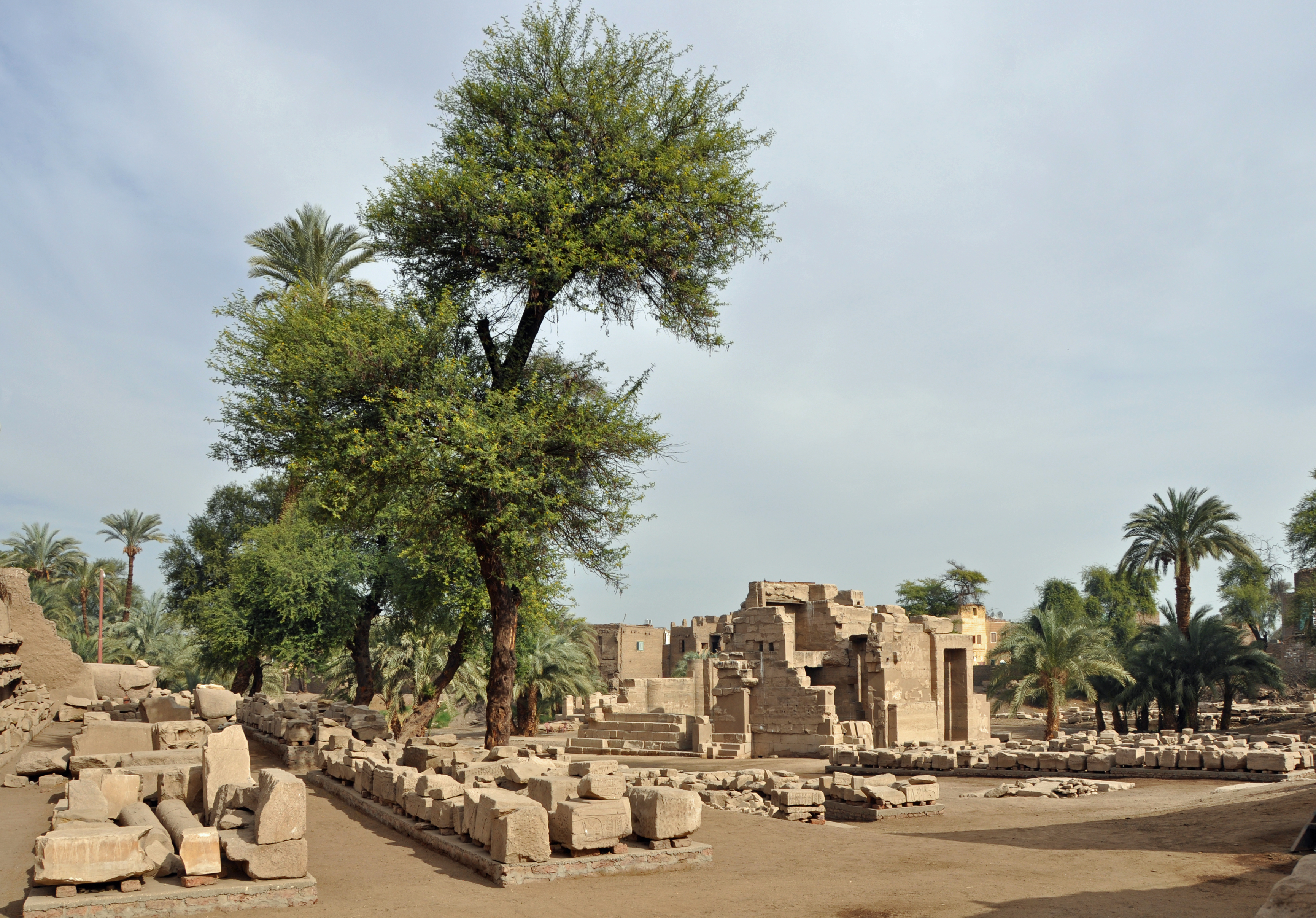 Tod Temple, south of Luxor (Egypt)